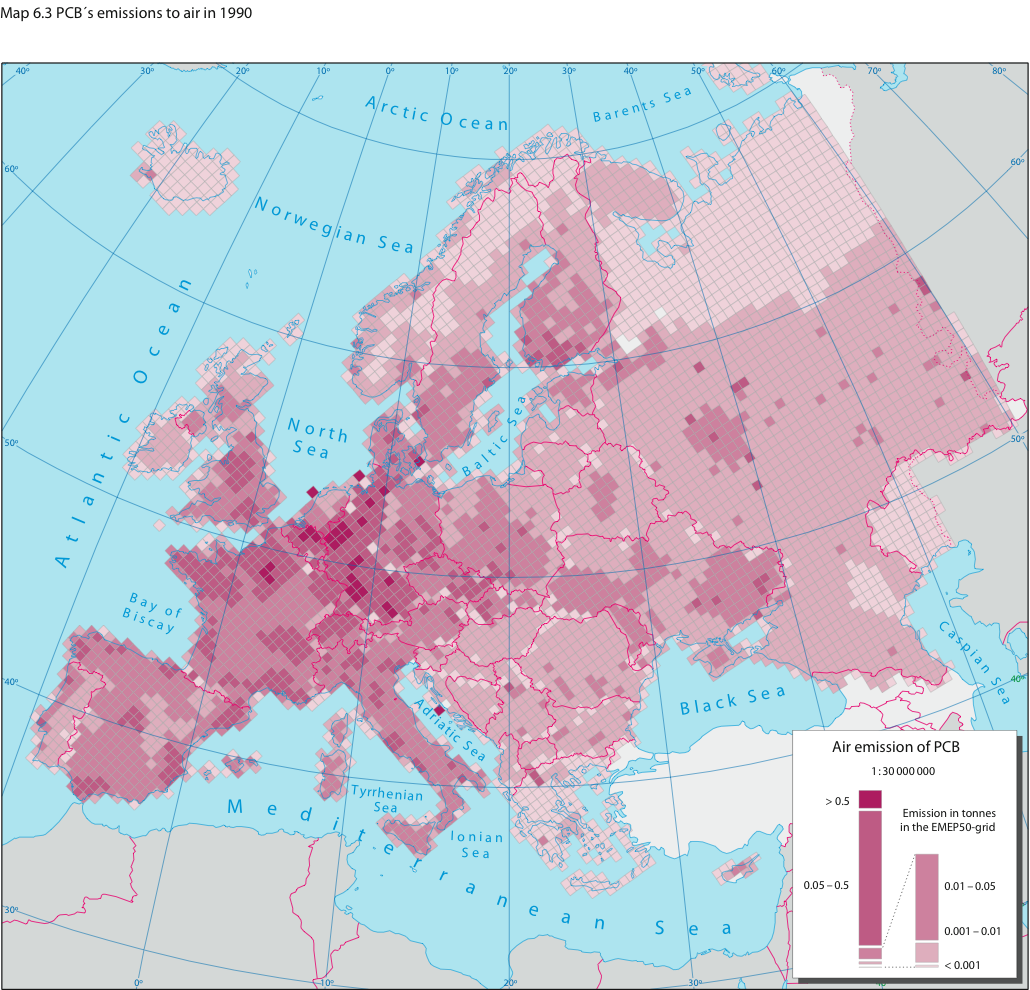 Map of atmospheric emissions of PCBs in Europe in 1990, published by the European Environment Agency. The data were obtained under the EMEP Programme and are plotted on the EMEP-50 grid using 50kmx50km grid squares.